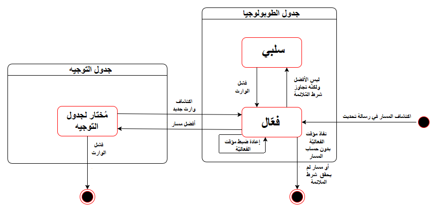 Machine state diagram for the route according to EIGRP.